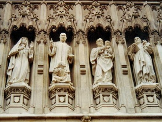 Westminster Abbey, West Door, Four of the ten 20th Century- Mother Elizabeth of Russia, Rev. Martin Luther King, Jr., Archbishop Oscar Romero, and Pastor Dietrich Bonhoeffer.